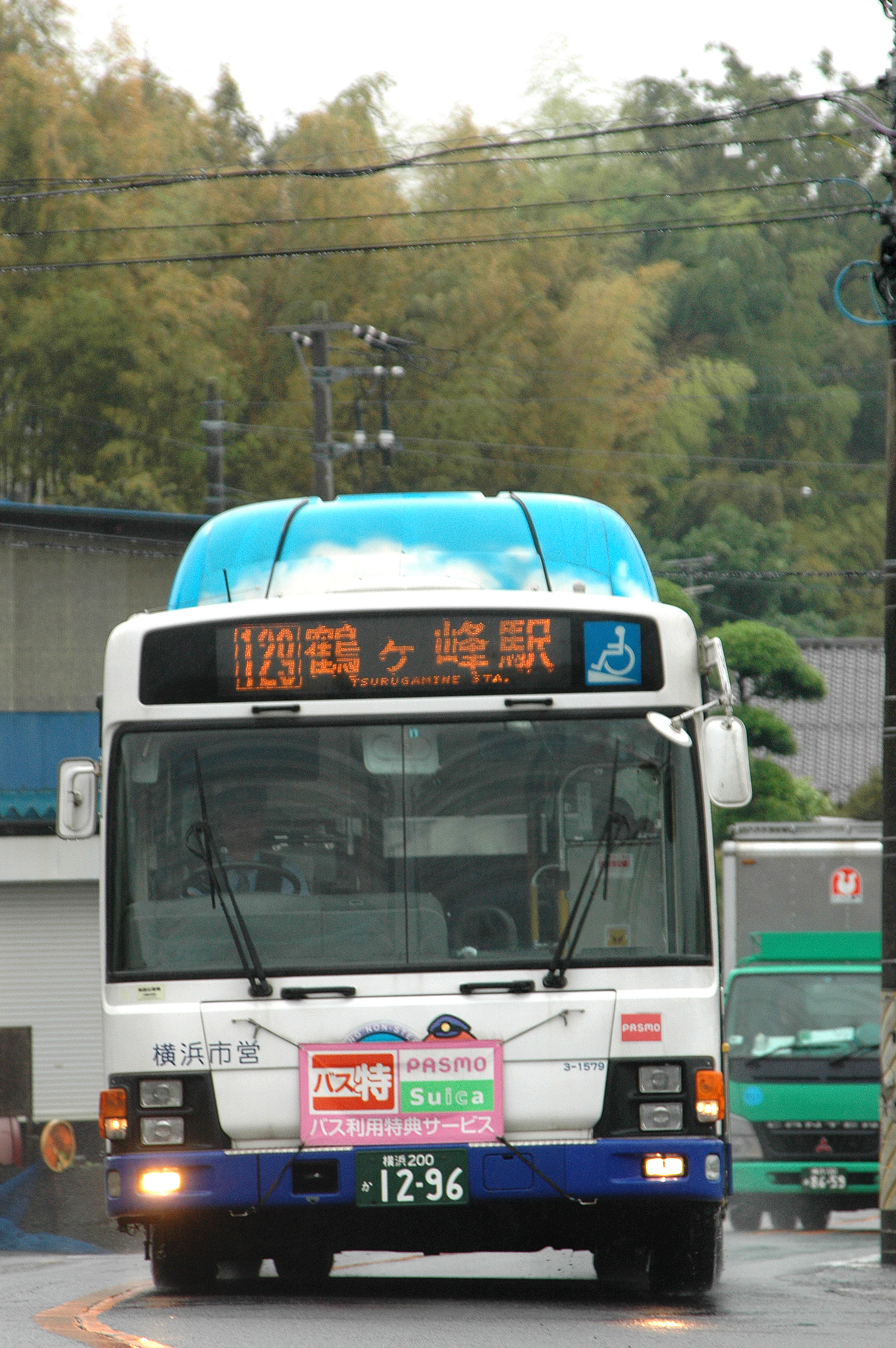 Yokohama municipal bus no.129 line, near Hazawa-Kindergarten Entrance Busstop, Yokohama, Japan